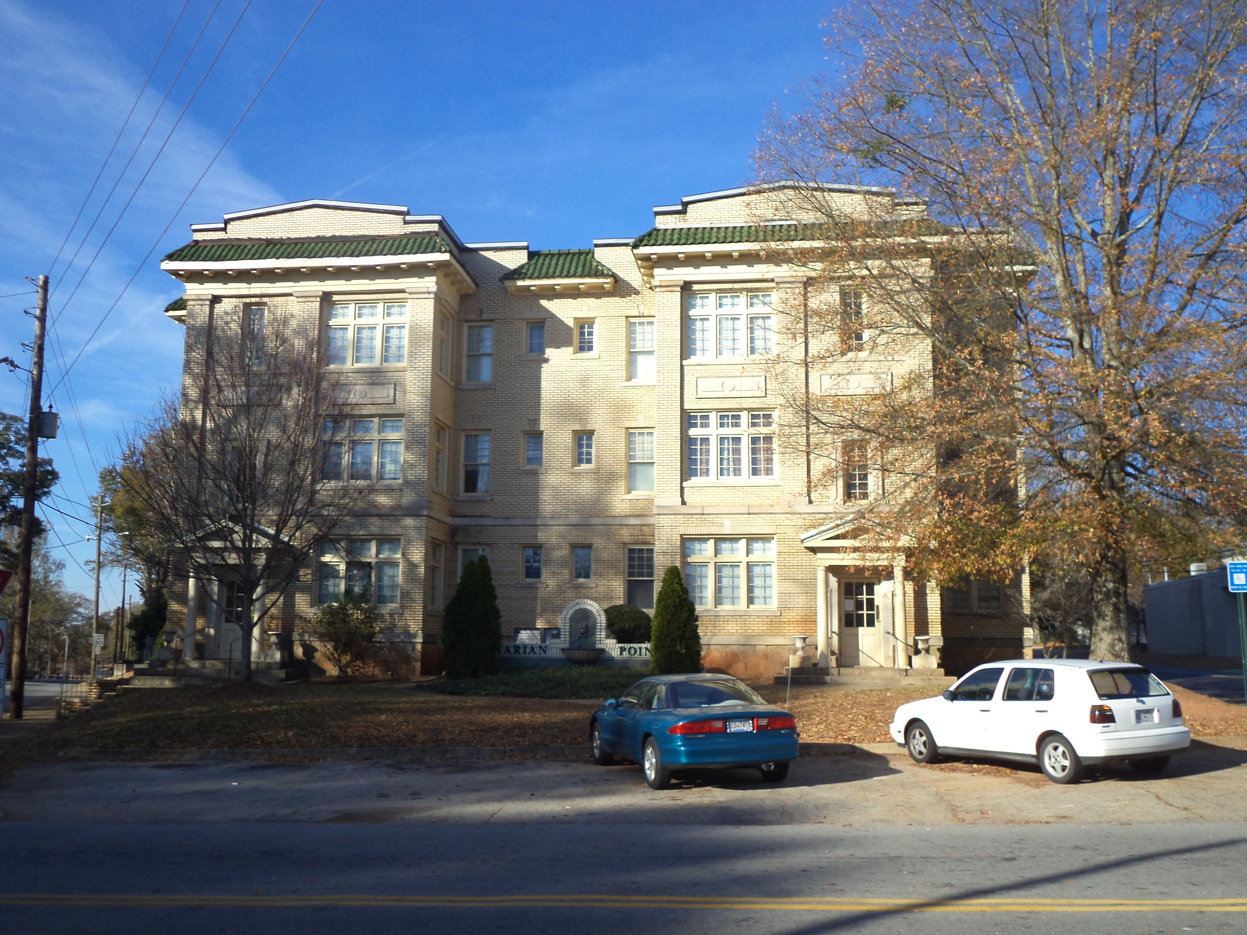 Marian Apartments (East face), Griffin, Spalding County, Georgia